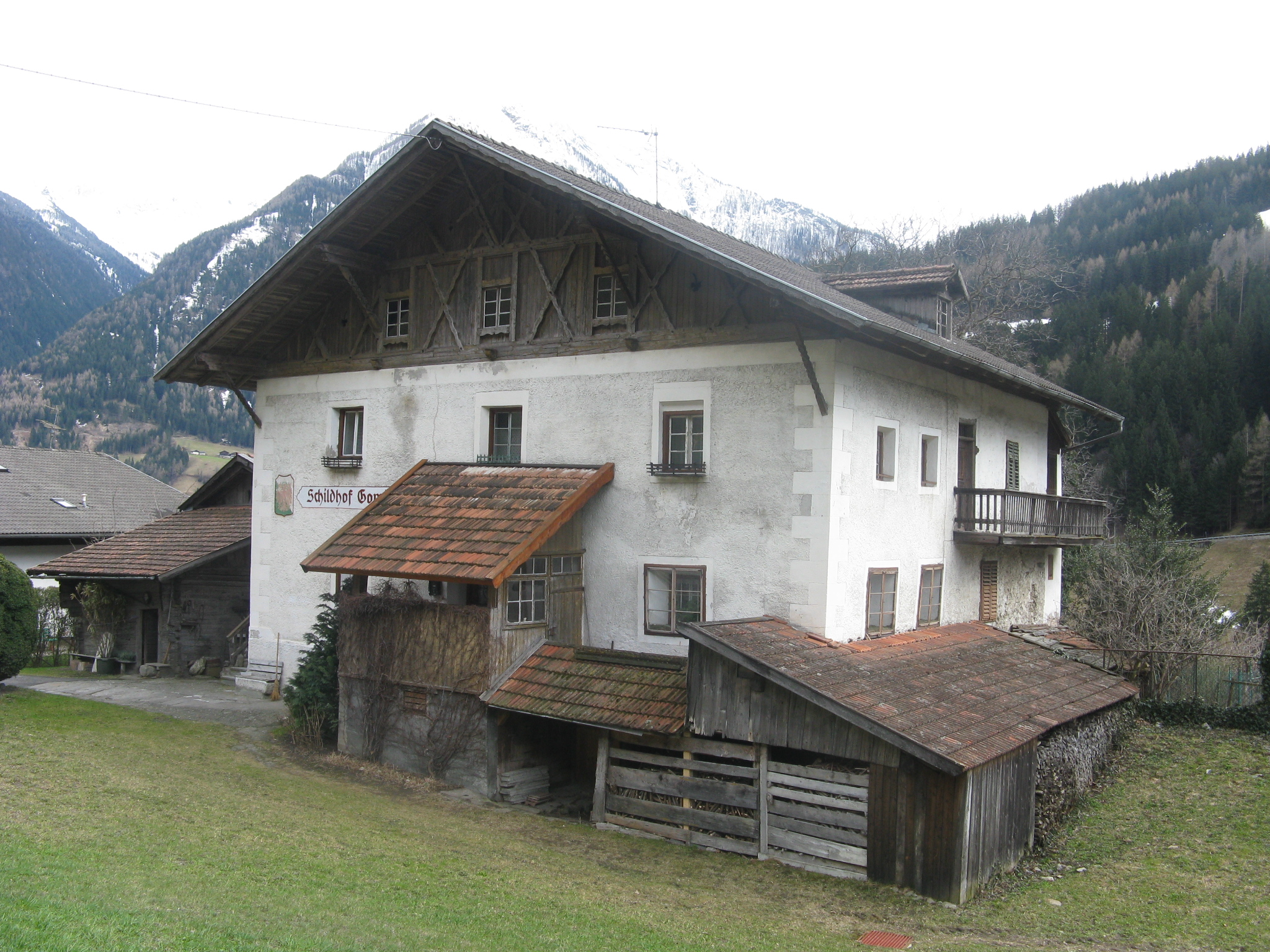 Man at arms' Court Gomion/St. Leonhard in Passeier, South Tyrol/Italy